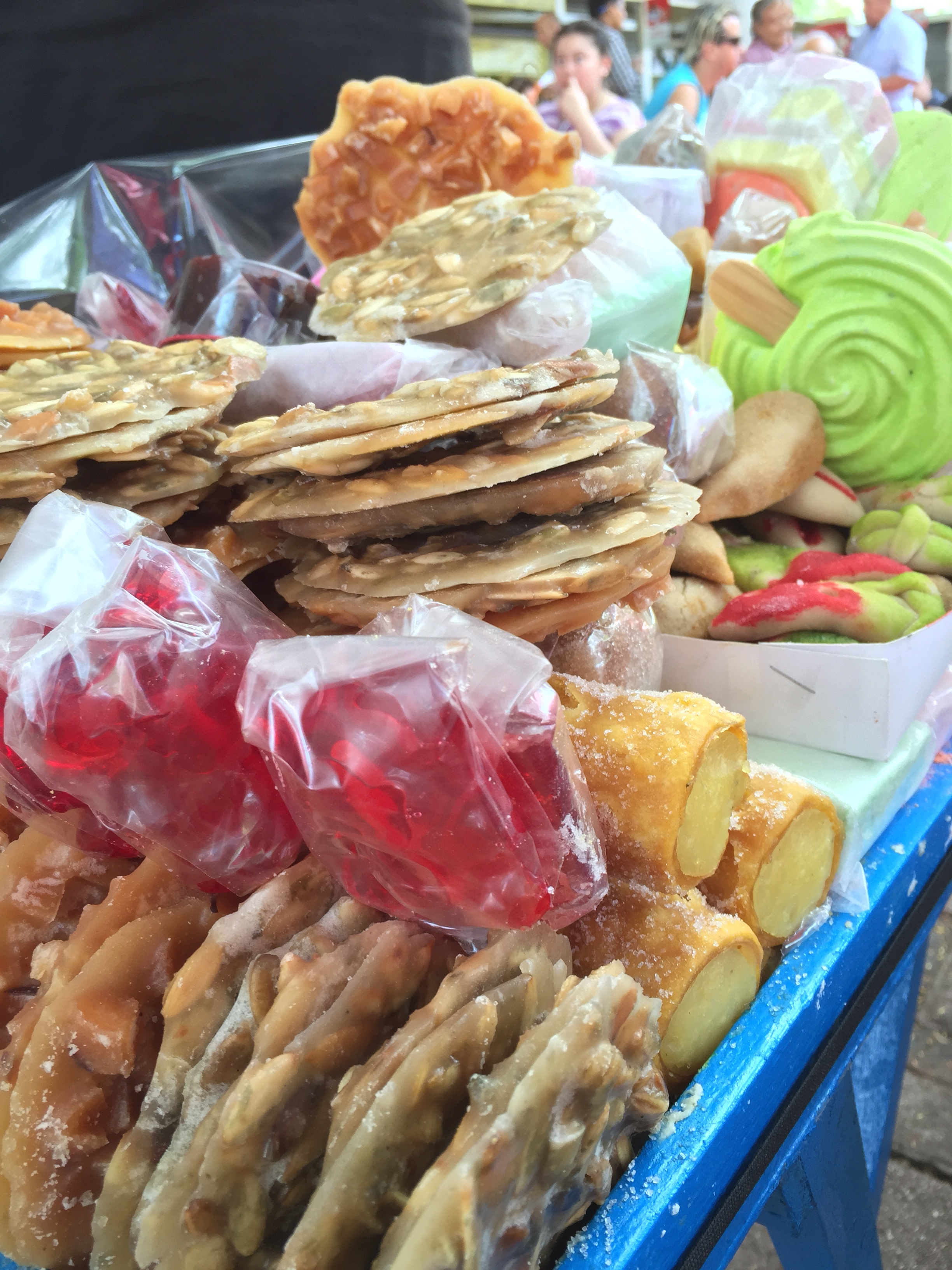 Mérida, Yucatán.